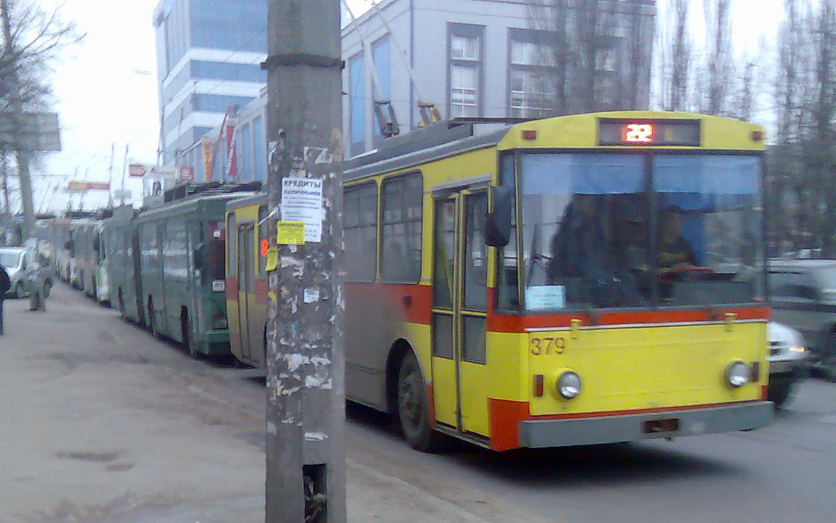 Trolleybuses in Kiev.